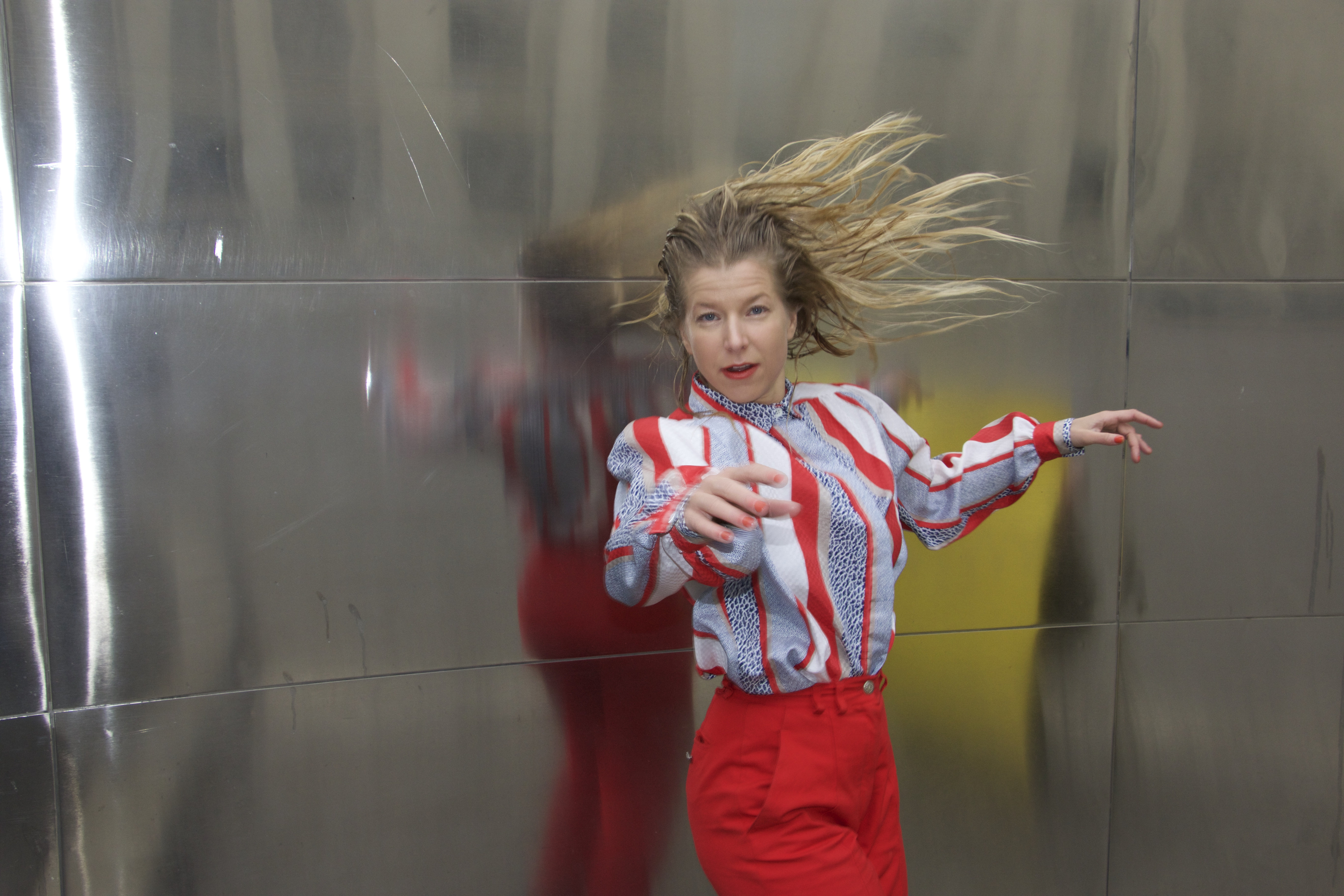 Press photo Frida Öhrn, Mars 2016, Photographer: Nette Sandström